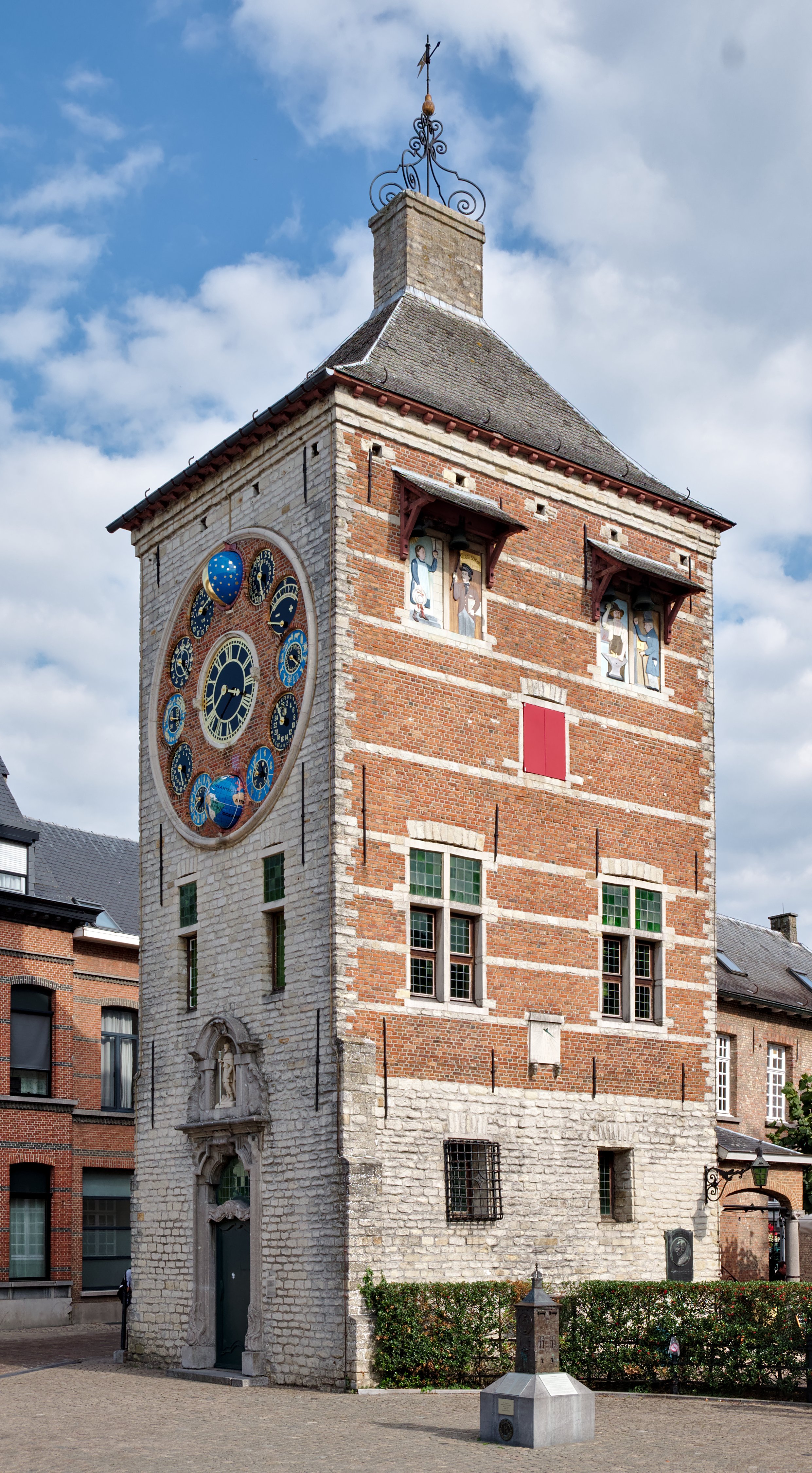 The Zimmer tower in Lier, Belgium This photo of immovable heritage has been taken in the Flemish Region